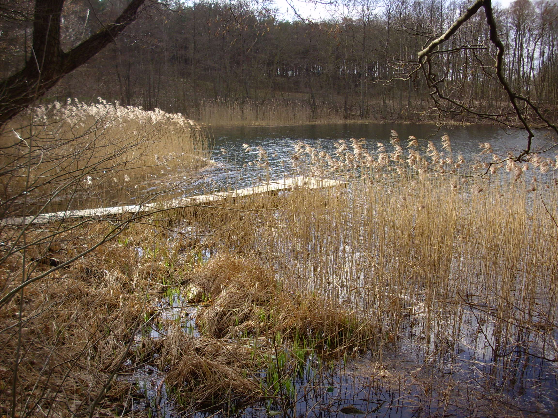 Szczuczarz Lake.